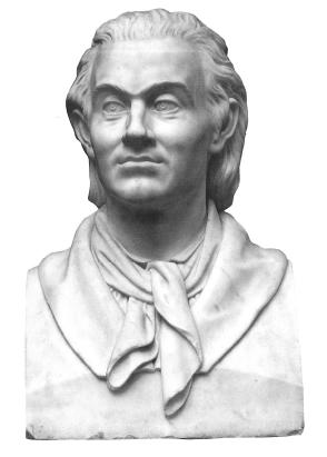 Bust of norwegian author Johan Wessel (1742-85) by norwegian sculptor Julius Middelthun (1820-1886); made 1865-66; owned by Nasjonalgalleriet